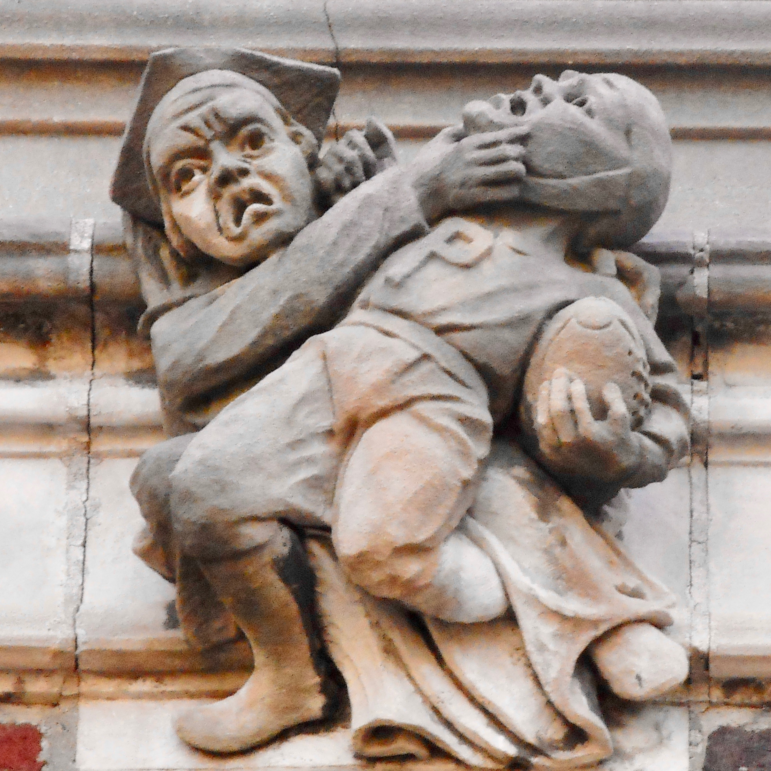 Humorous sculpture on a Princeton Eating Club (above main door) on Prospect Avenue, Princeton, New Jersey. Date approximately 1910, no visible copyright notice. Will get a better pic next time I'm there!